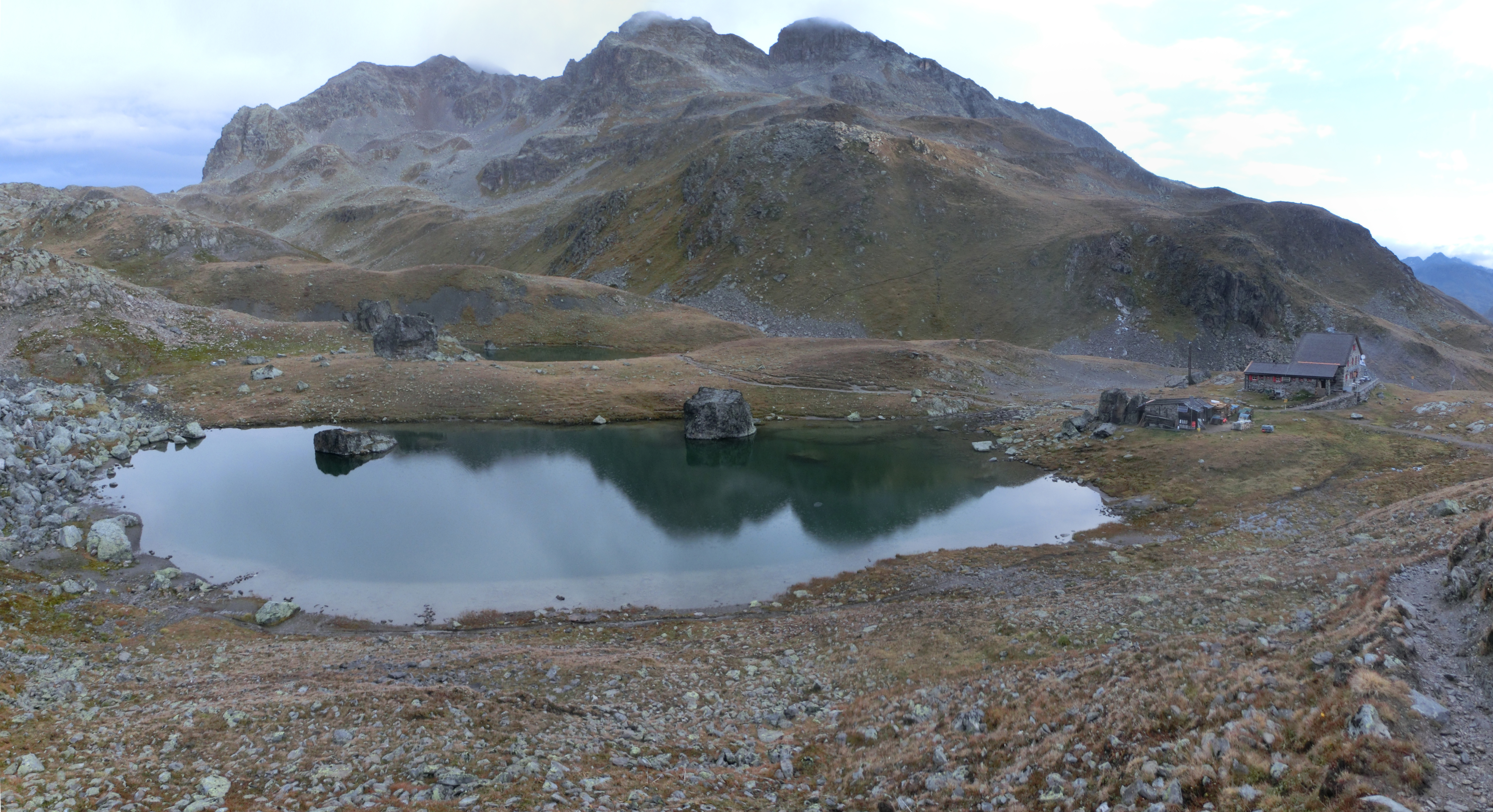 Chamanna da Grialetsch SAC and lake, Susch, Grison, Switzerland